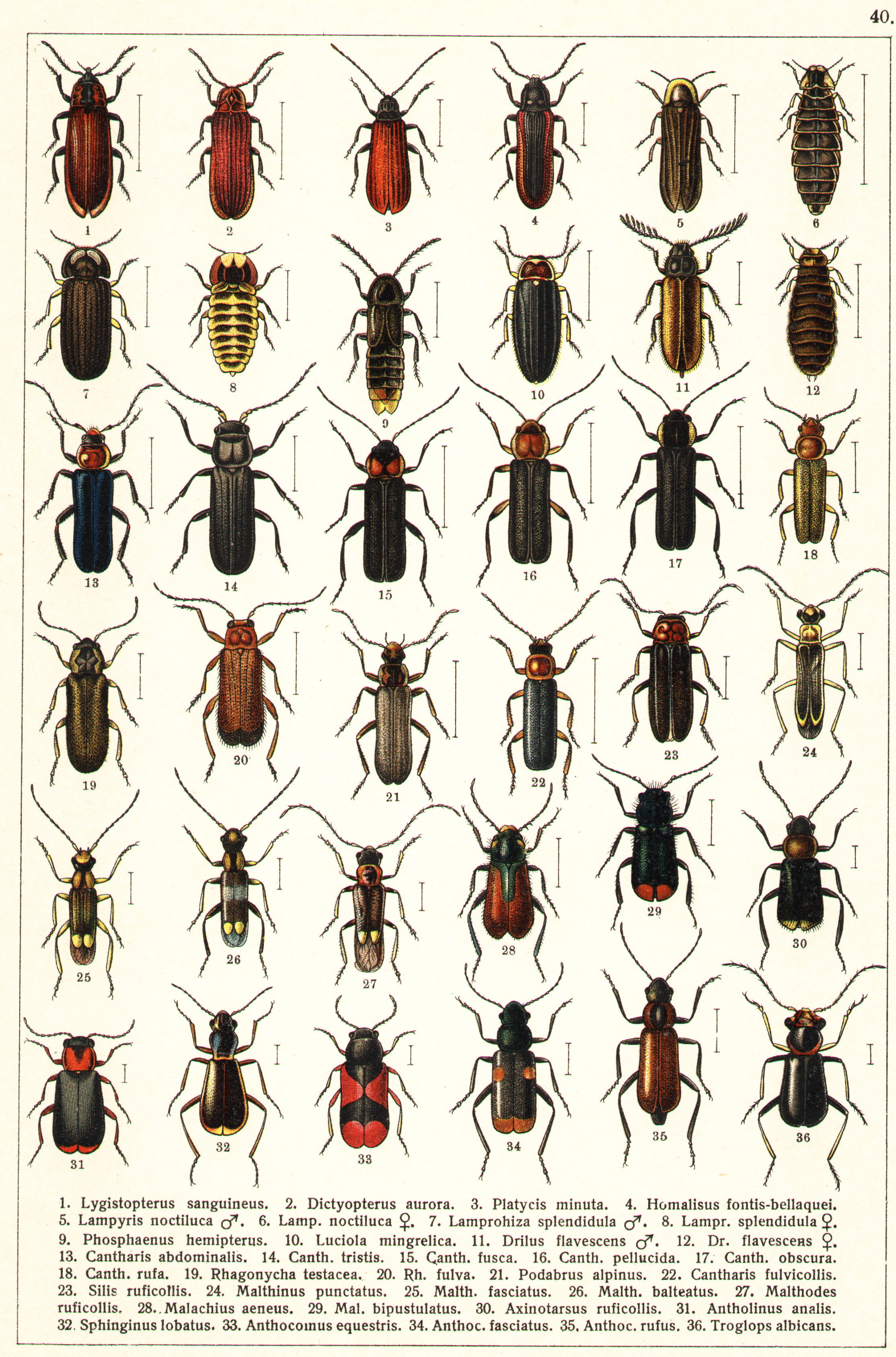 Illustration of monographs Georgiy Jacobson "Beetles Russia and Western Europe". Publisher: Devriena company. The first issue was released in 1905, the last – in 1915. Illustrations were mostly taken from the publication CG Calwers Kaeferbuch. Part of illustrations drawn O. Somina 1. Lygistopterus sanguineus 2. Dictyopterus aurora 3. Platycis minuta 4. Homalisus fontis-bellaquei 5. Lampyris noctiluca 6. Lampyris noctiluca 7. Lamprohiza splendidula 8. Lamprohiza splendidula 9. Phosphaenus hemipterus 10. Luciola mingrelica 11. Drilus flavescens 12. Drilus flavescens 13. Cantharis abdominalis 14. Cantharis tristis 15. Cantharis fusca 16. Cantharis pellucida 17. Cantharis obscura 18. Cantharis rufa 19. Rhagonycha testacea 20. Rhagonycha fulva 21. Podabrus alpinus 22. Cantharis fulvicollis 23. Silis ruficollis 24. Malthinus punctatus 25. Malthinus fasciatus 26. Malthinus balteatus 27. Malthodes ruficollis 28. Malachius aeneus 29. Malachius bipustulatus 30. Axinotarsus ruficollis 31. Antholinus analis 32. Sphinginus lobatus 33. Anthocomus equestris 34. Anthocomus fasciatus 35. Anthocomus rufus 36. Troglops albicans